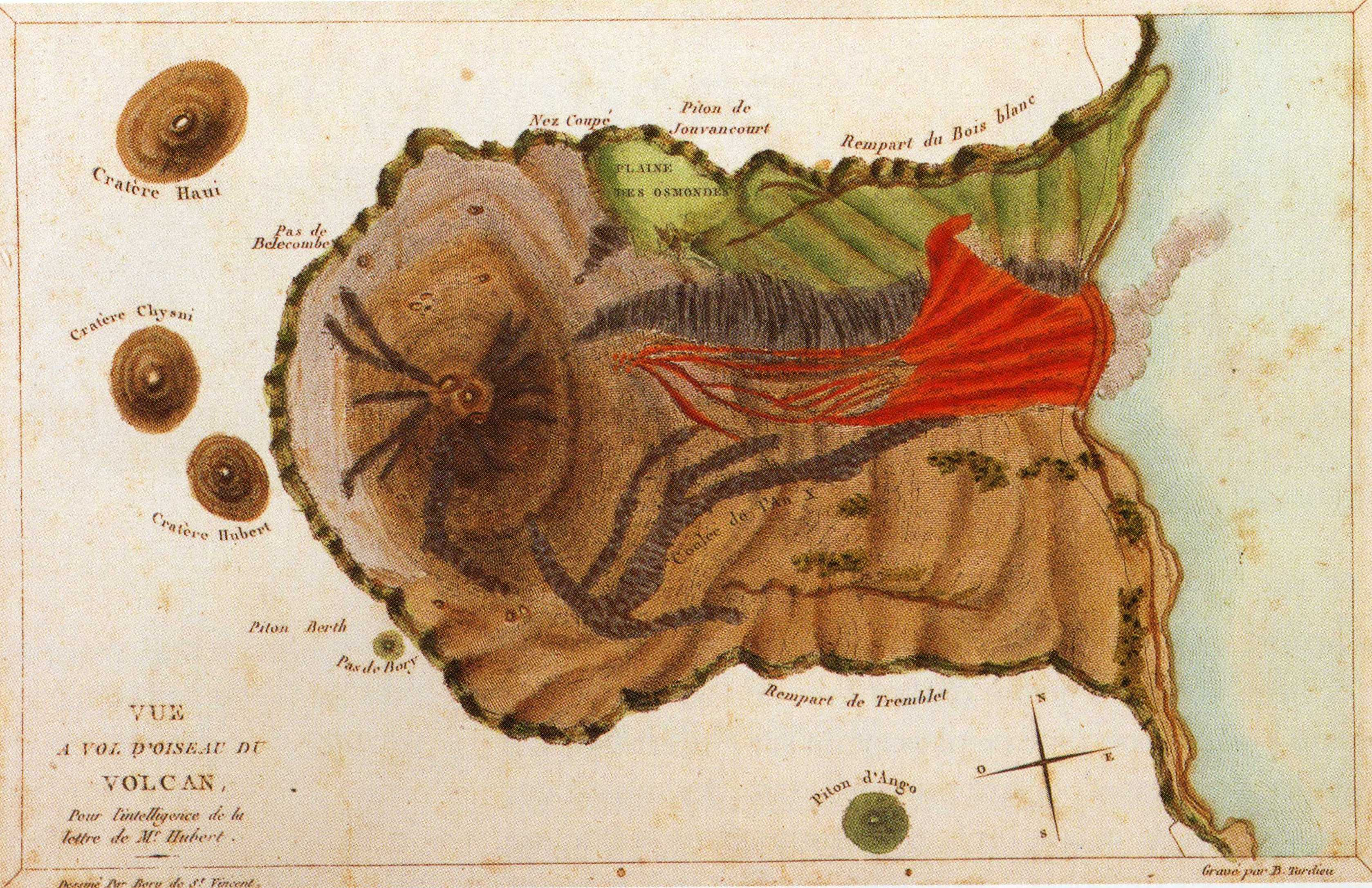 Sketch of the Piton de la Fournaise volcano on Réunion island in 1801